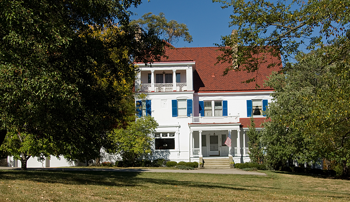 William Stearns house in Wyoming, OH. Photo by Greg Hume.